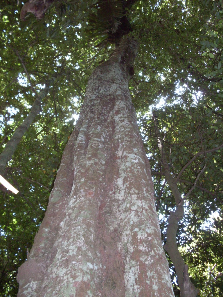 Cryptocarya glaucescens, Royal National Park, Illawarra, NSW, Australia - approx. 40 metres tall